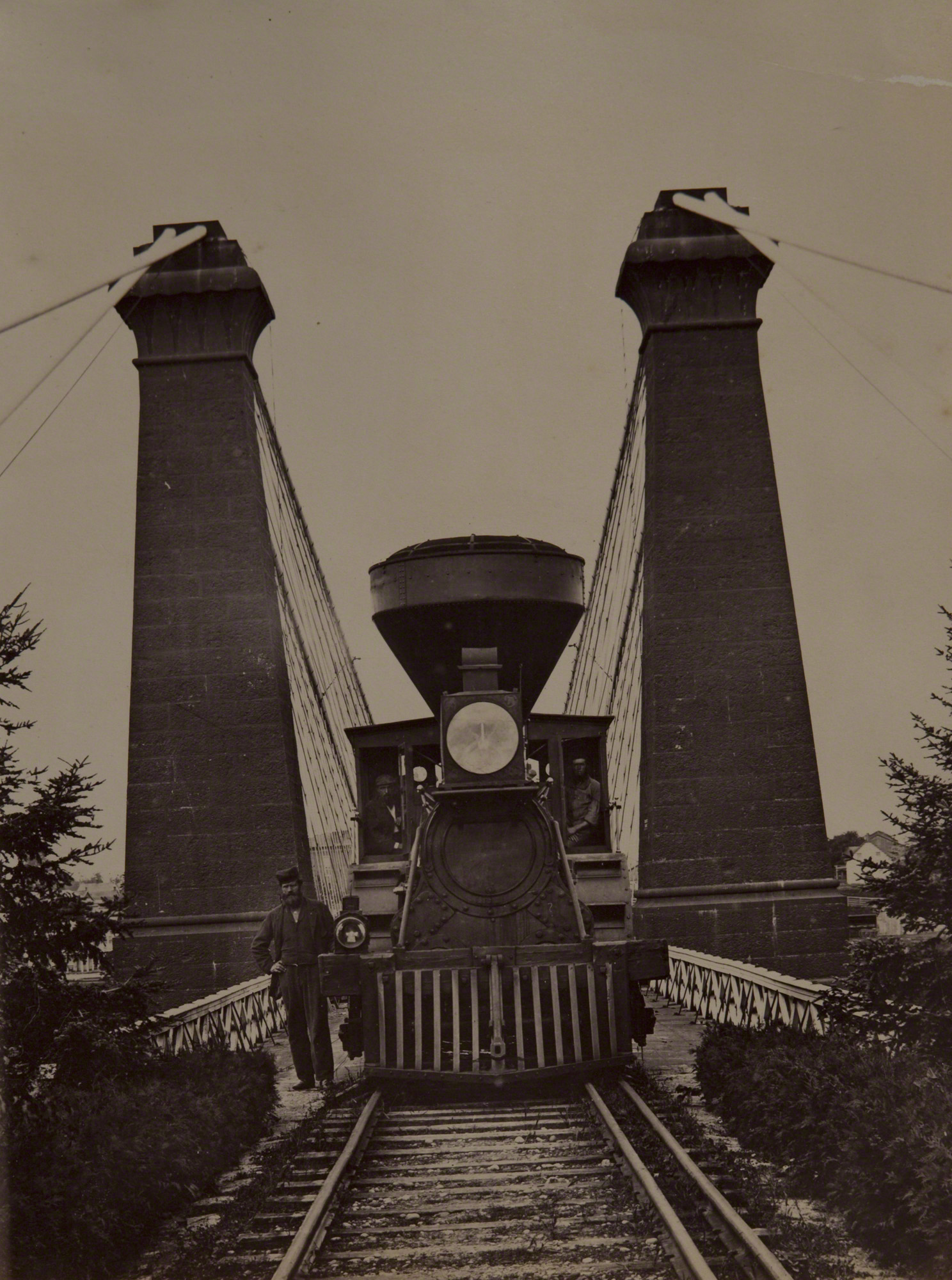 Train and Engineer on Suspension Bridge, Niagara. Albumen print. Gift of the Catherine and Ralph Benkaim Collection. Accession Number: 1996.023.003